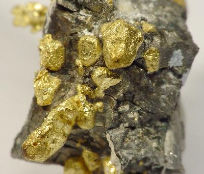 Arsenopyrite, Gold Locality: Triumph Mine, Mariposa County, California, USA (Locality at ) Size: thumbnail, 2.2 x .9 x .9 cm Gold on Arsenopyrite Aesthetic specimen of a spire of Arsenopyrite sprinkled with lustrous coarse Gold crystals averaging 2-3 mm in size. The combination of the numerous Gold crystals, the silver matrix and the white Quartz for accent make this nicely attractive. Unusual!